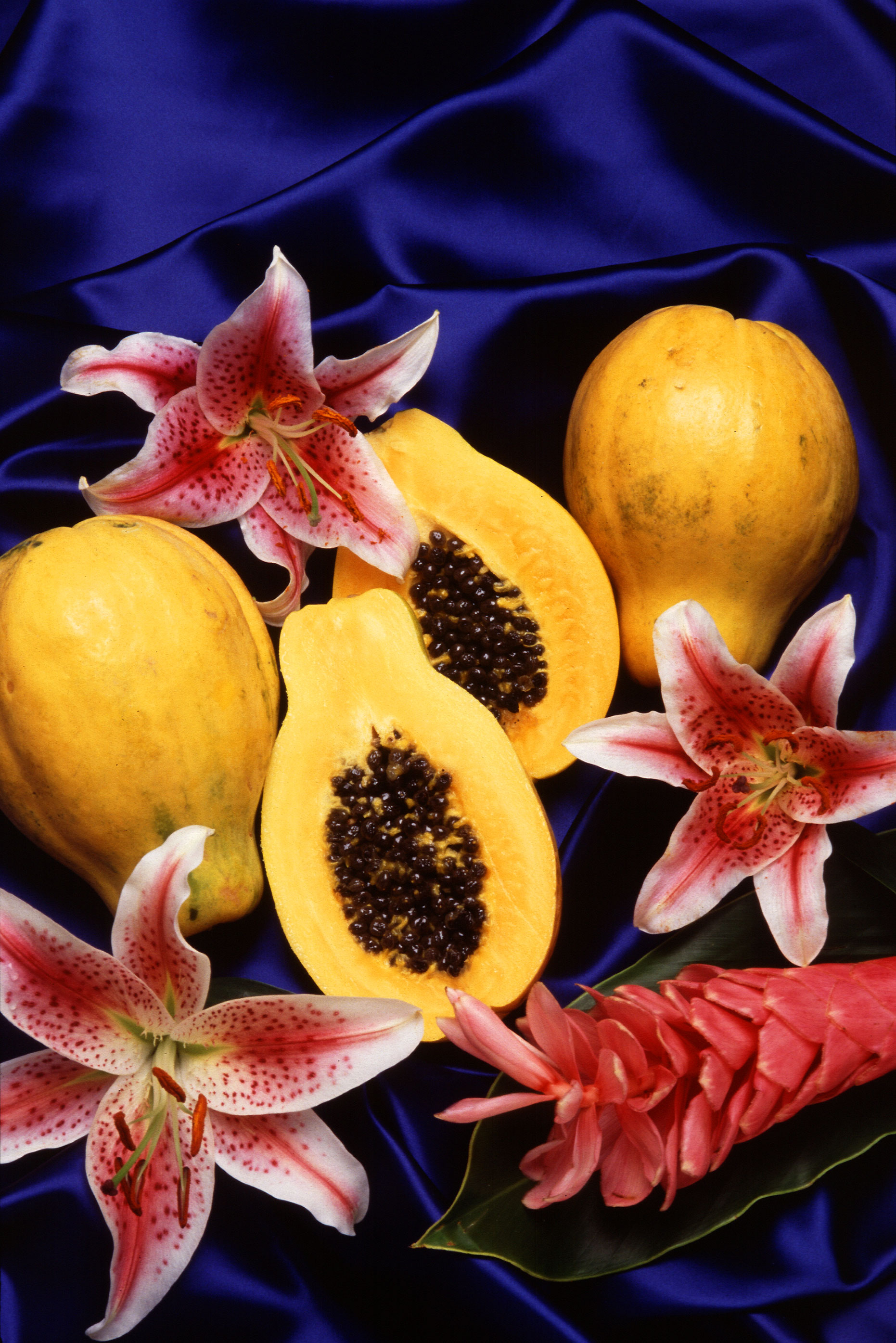 Hawaiian papayas (Carica papaya). Use this picture carefully, as the shown flowers aren't Papaya-flowers, but decorative, though botanical not precise Lilium-flowers.